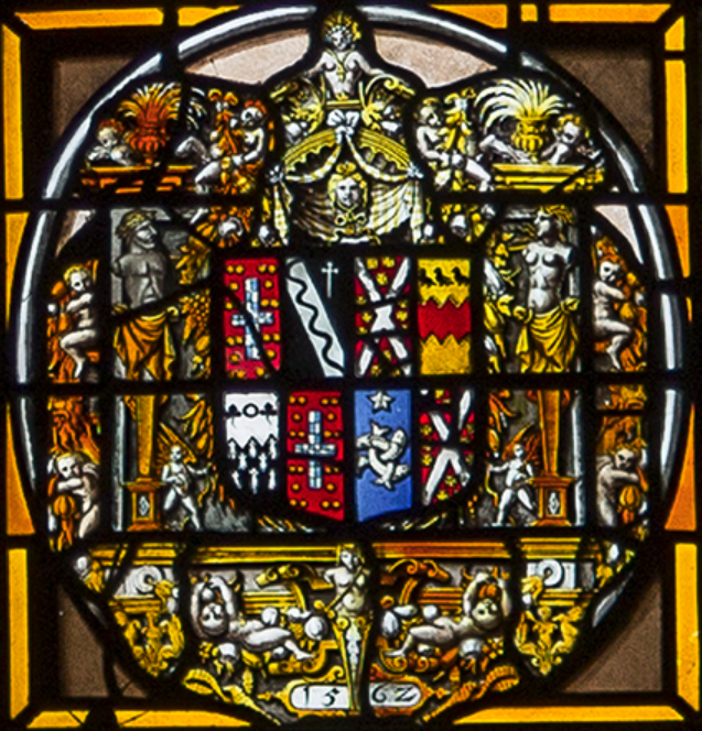 Mereworth Church, Kent, detail from East Window. Arms of Walsingham (quarterly of four) impaling Denny (quarterly of four), symbolising the marriage of William Walsingham (d.1534), of Scadbury Hall[5] in the parish of Chislehurst in Kent, and his wife Joyce Denny, a daughter of the courtier Sir Edmund Denny of Cheshunt in Hertfordshire, and a sister of the courtier Sir Anthony Denny, the principal Gentleman of the Privy Chamber to King Henry VIII. Parents of Sir Francis Walsingham(c. 1532 – 6 April 1590) principal secretary to Queen Elizabeth I of England from 20 December 1573 until his death and popularly remembered as her "spymaster". (Source: C. R. Councer, Heraldic Painted Glass in the Church of St. Lawrence, Mereworth, Archaeologia Cantiana, Vol.77, 1962, pp.48-62, esp. p.50 et seq[1]) Arms Baron (dexter): quarterly of four 1&4: Gules bezantée, a cross couped chequy argent and azure (Walsinghham of Scadbury Hall, Chislehurst, Kent); 2: Sable, on a bend argent a bendlet wavy of the first in sinister chief a cross-crosslet fitchée of the second (Writtle, for Eleanor Writtle, wife of James Walsingham (1462-1540) of Scadbury, Sheriff of Kent in 1497, and daughter and heiress of Walter Writtle of Bobbingworth, Essex) 3: Ermines, on a chief indented argentan annulet between two trefoils slipped sable (Bamme, for Margaret Bamme, wife of Thomas Walsingham (died 1457) of Scadbury, MP, who purchased Scadbury in 1424, and daughter and heiress of Henry Bamme of the City of London, a member of the Worshipful Company of Vintners). Impaling femme (sinister): 1&4: Gules, a saltire argent between twelve crosses pattee or (Denny) 2: 3